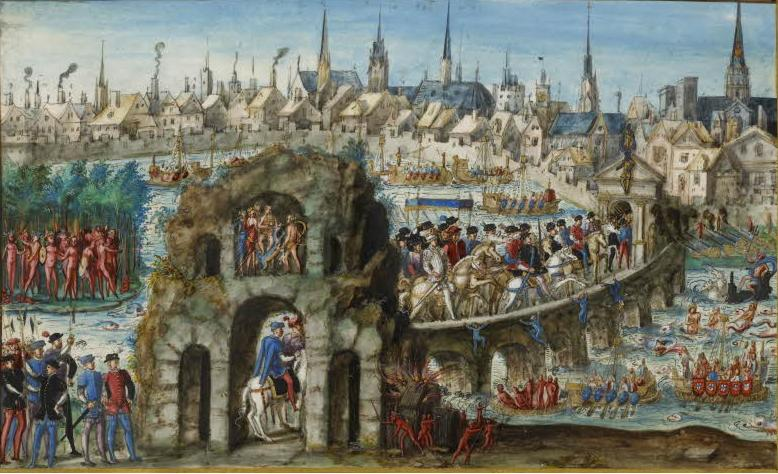 Entrée du roi Henri II à Rouen le premier octobre 1550